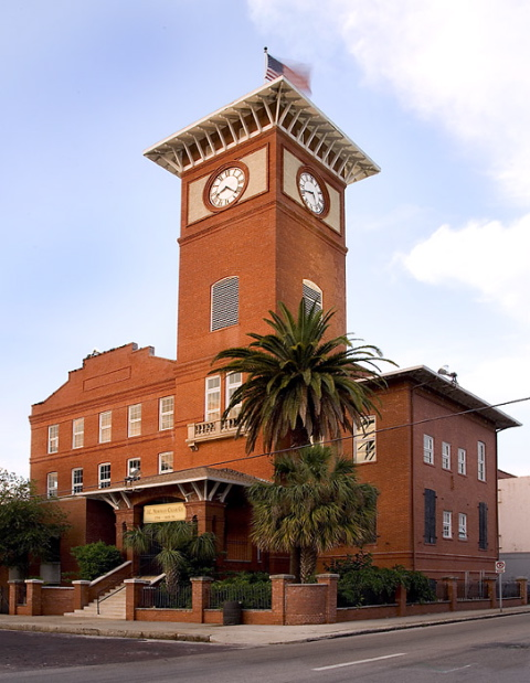 Exterior of Building